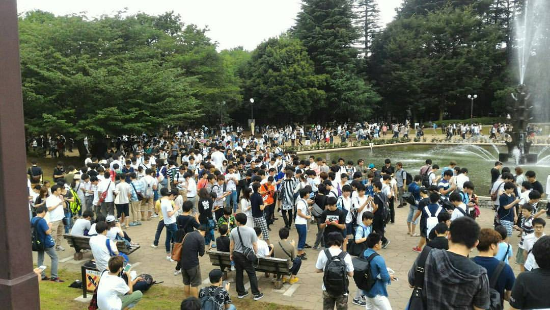 My son sent this photo of Pokemon GO players gathered around the fountain in Setagaya Park today. They are all trying to catch enough Magikarp to evolve a Gyrados.